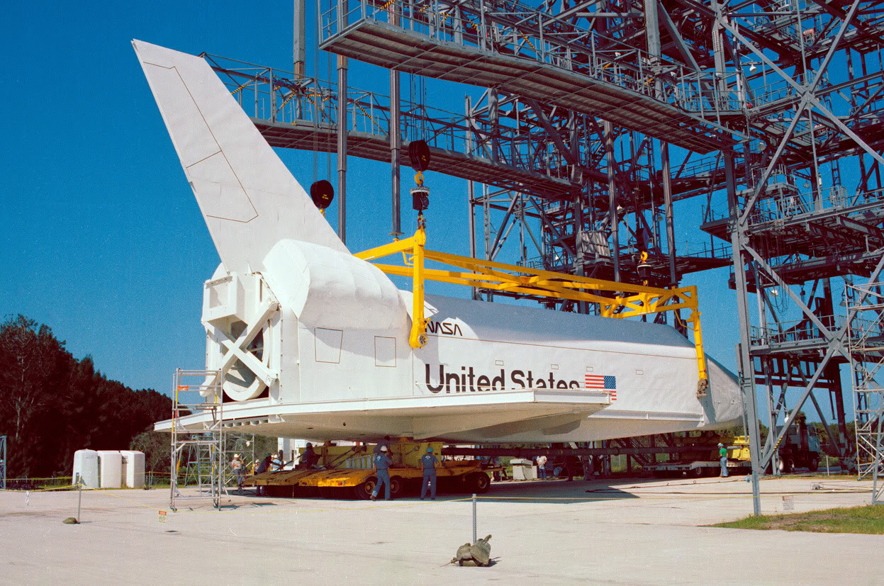 At NASA's Kennedy Space Center in Florida, the space shuttle mock-up, dubbed Pathfinder, is attached to the Mate-Demate Device for at fit-check Oct. 19, 1978. The mock-up, constructed at NASA's Marshall Space Flight Center in Huntsville, Ala., possessed the general dimensions, weight and balance of a real space shuttle. It was shipped to Kennedy by barge and then used to fit-check the work platforms of the Mate-Demate Device, orbiter processing facilities and Vehicle Assembly Building, as well as support ground crew training. It also was used to rehearse post-landing procedures at Kennedy's Shuttle Landing Facility. After being on display at the "Great Space Shuttle Exposition" in Tokyo from June 1983 to August 1984, the mock-up returned to Marshall and now is on permanent display at the U.S. Space and Rocket Center near Huntsville.